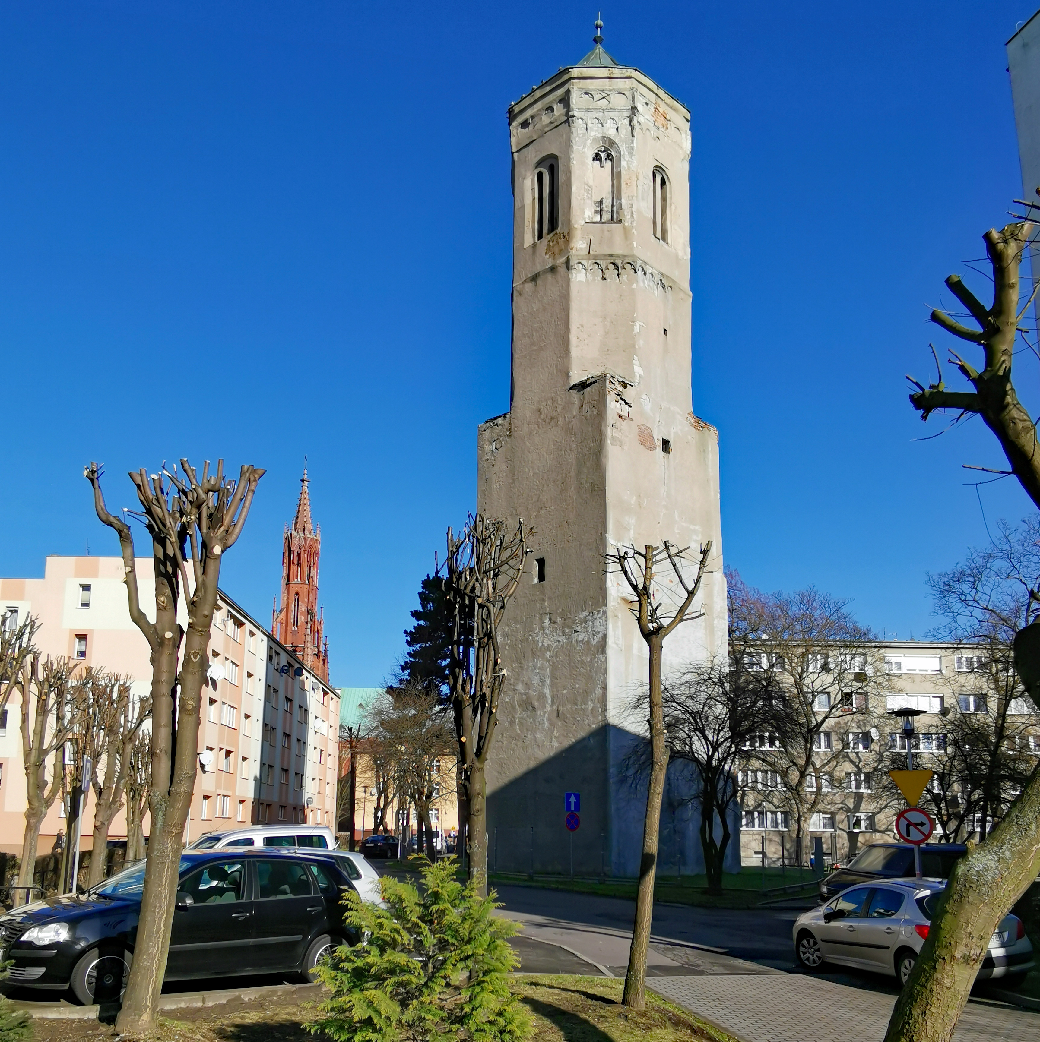 Dreifaltigkeitsturm, Luban, Poland